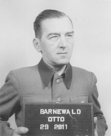 Otto Barnewald, SS-Sturmbannführer. From 1942 to 1945 he was leader of the administration in the concentration camp of Buchenwald. In the Buchenwald Camp Trial (part of the Dachau Trials) he was sentenced to death by hanging (later modified to life imprisonment)